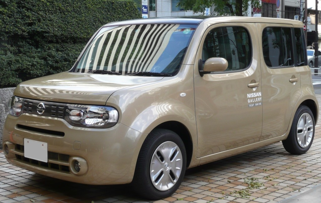 Nissan Cube.